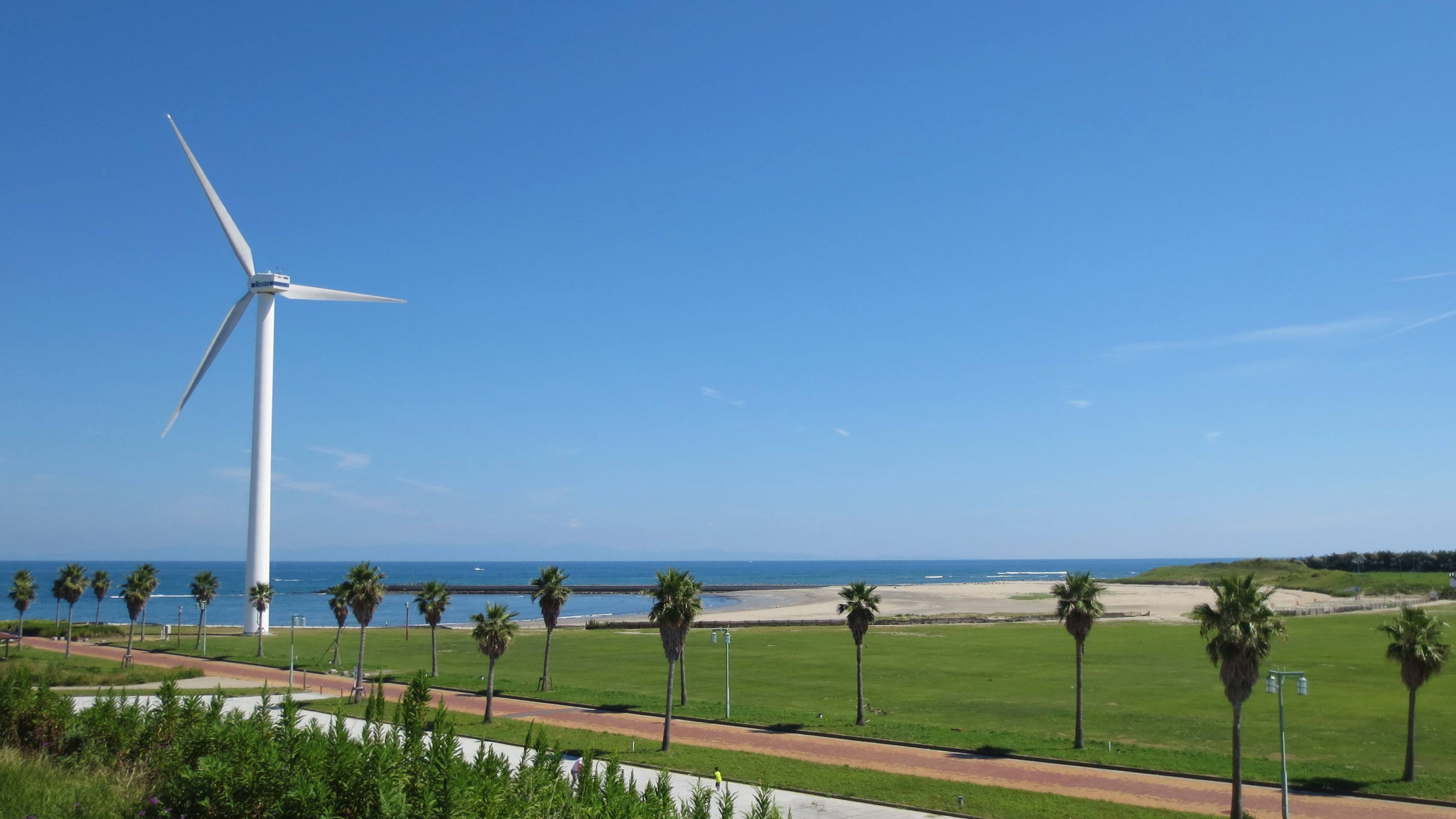 Marine Park Omaezaki.